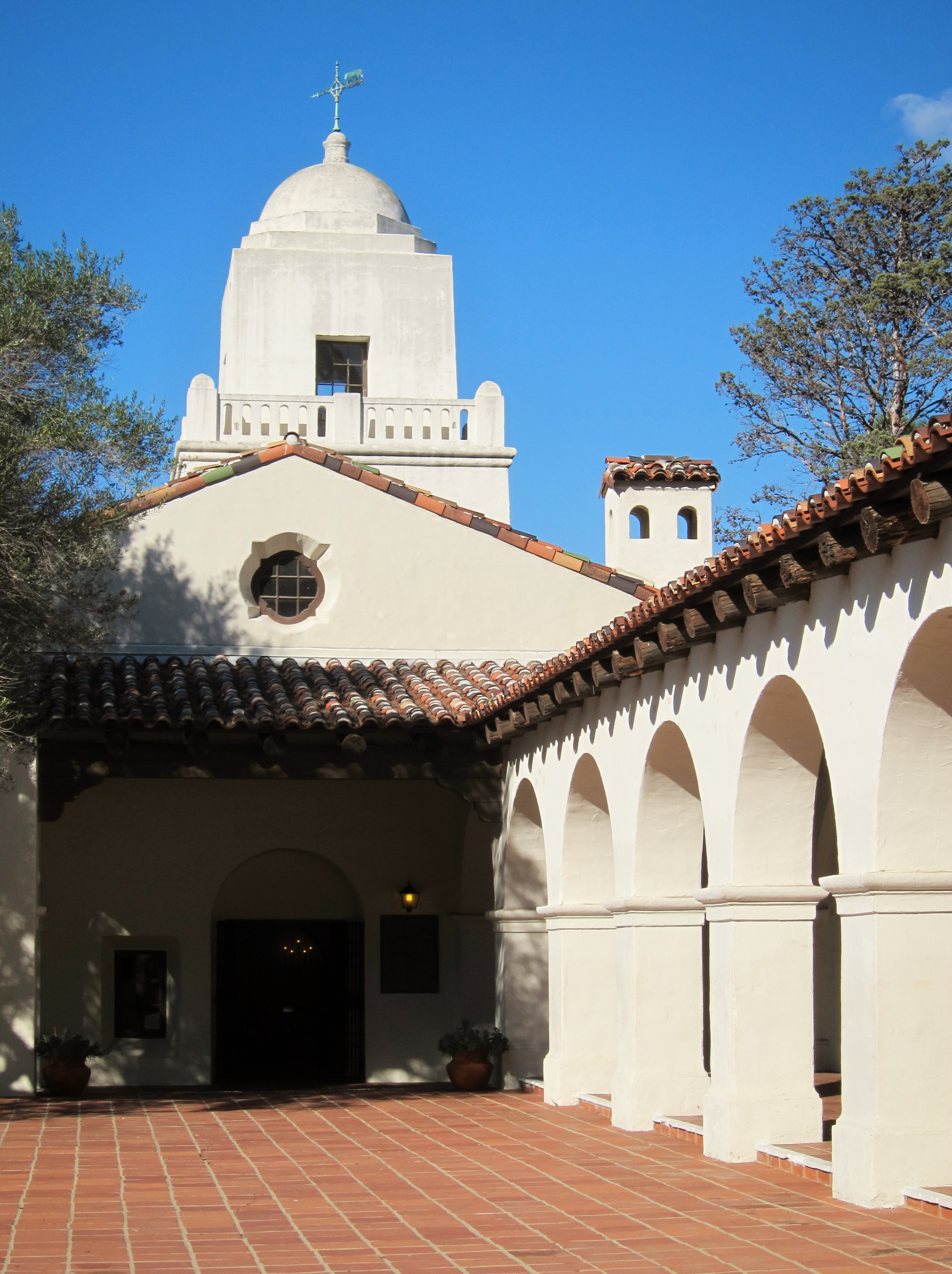 Old Town, San Diego, CA, USA